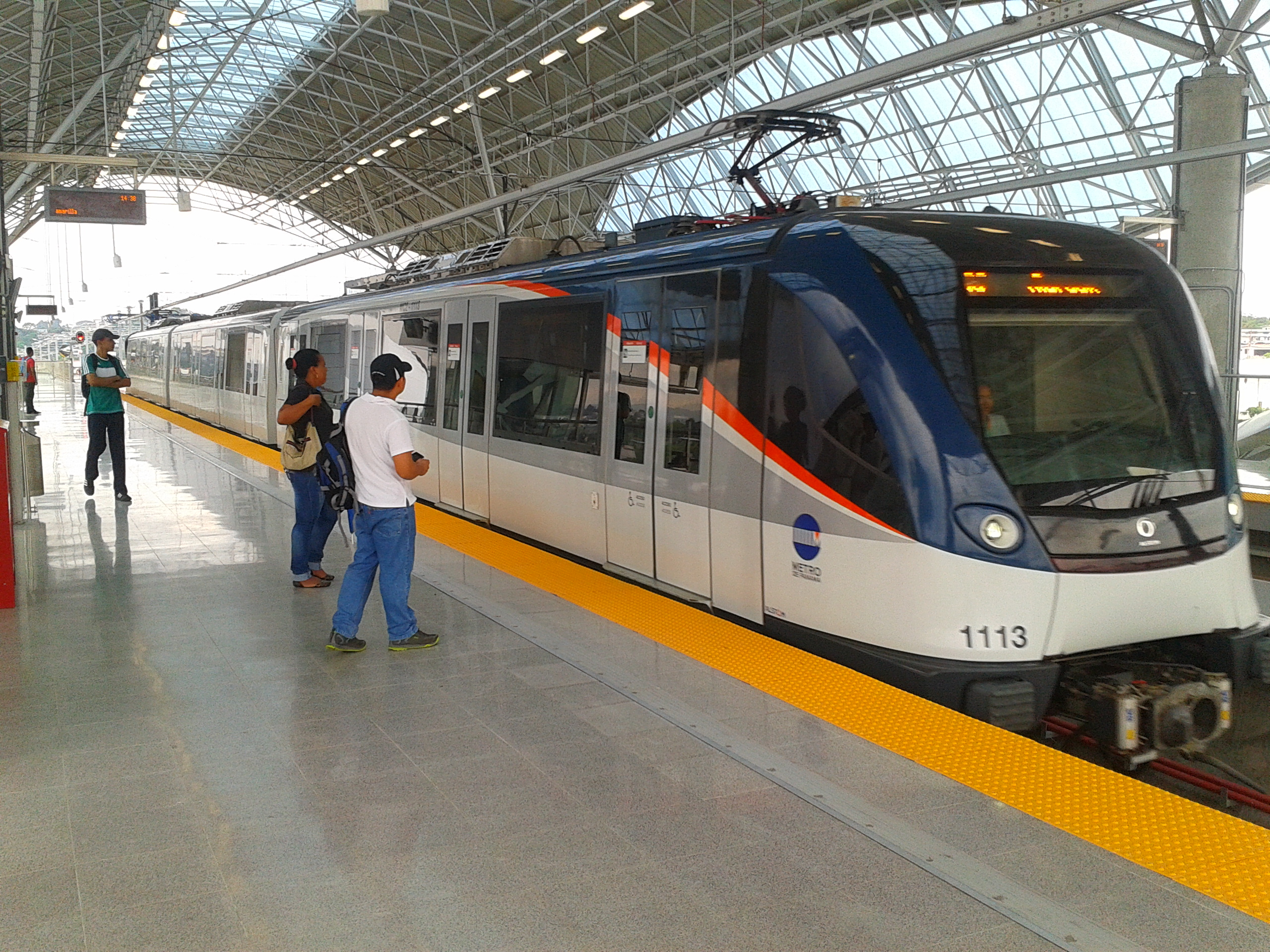 One of the 19 Alstom Metropolis trains owned by the Panama Metro arriving at Pueblo Nuevo station.